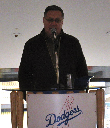 Dodgers Radio Network broadcaster Jaime Jarrin